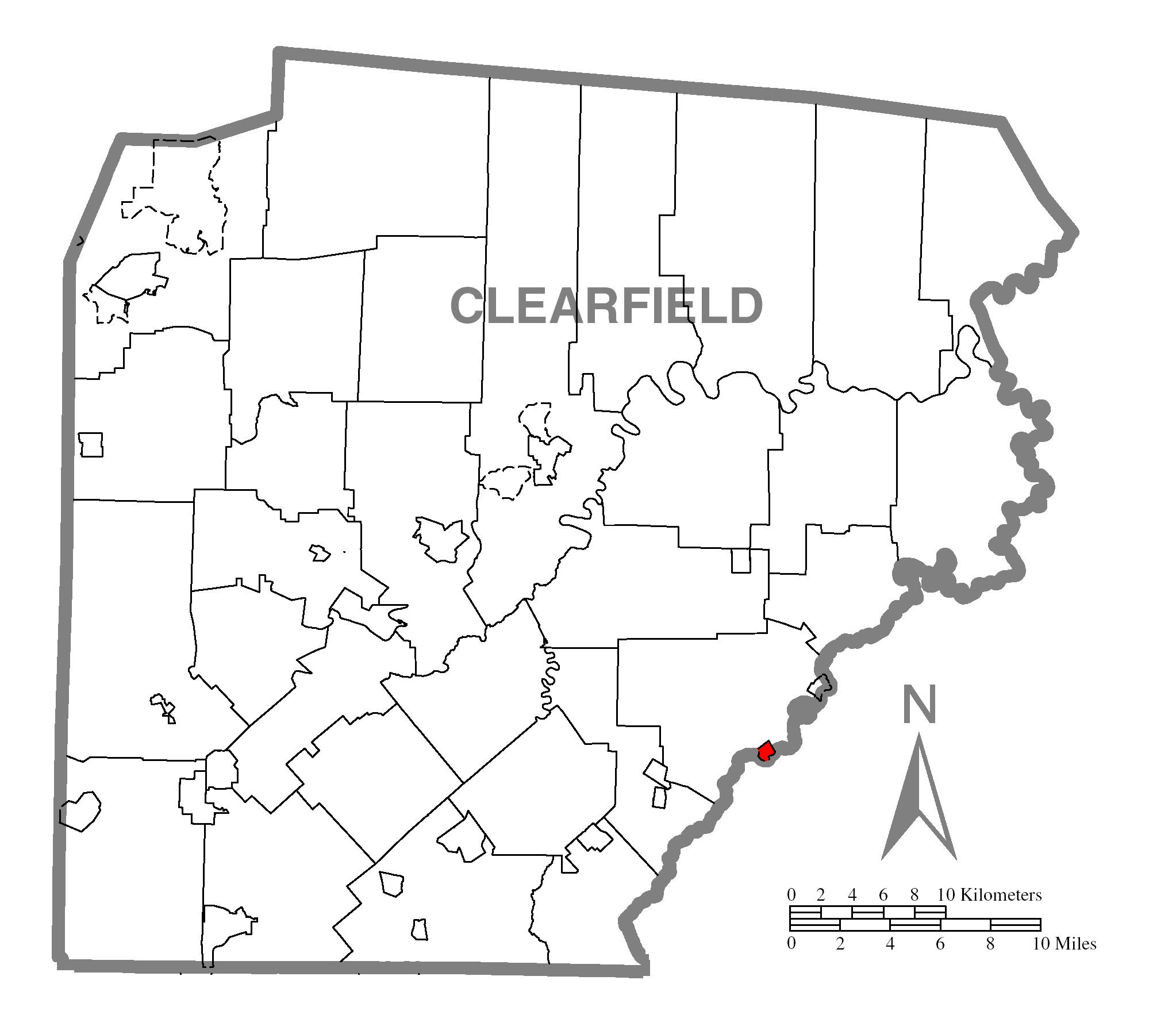 A map of Clearfield County showing Osceola Mills, Pennsylvania (alternate) highlighted on the map.